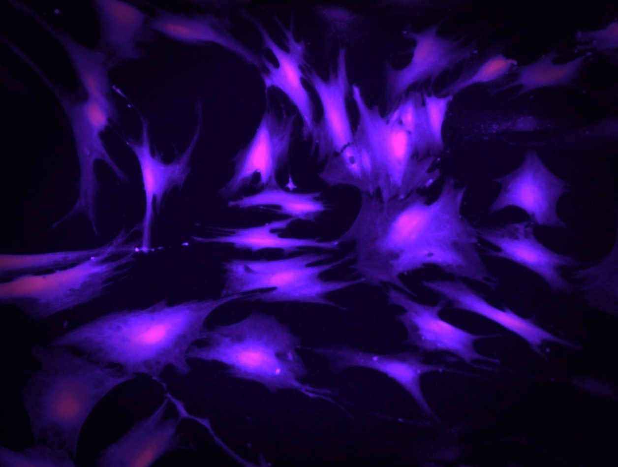 Neonatal Human Dermal Fibroblasts (ATCC cat. PCS-201-010). Stained with Calcein-AM, imaged on a monochromatic microscope, and pseudocolored.